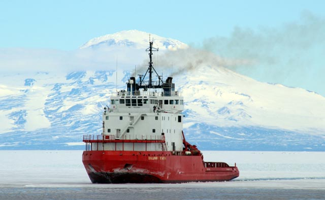 Russian ice breaker Vladimir Ignatyuk cuts a channel through the sea ice into McMurdo Sound in Antarctica, February 6, 2013.